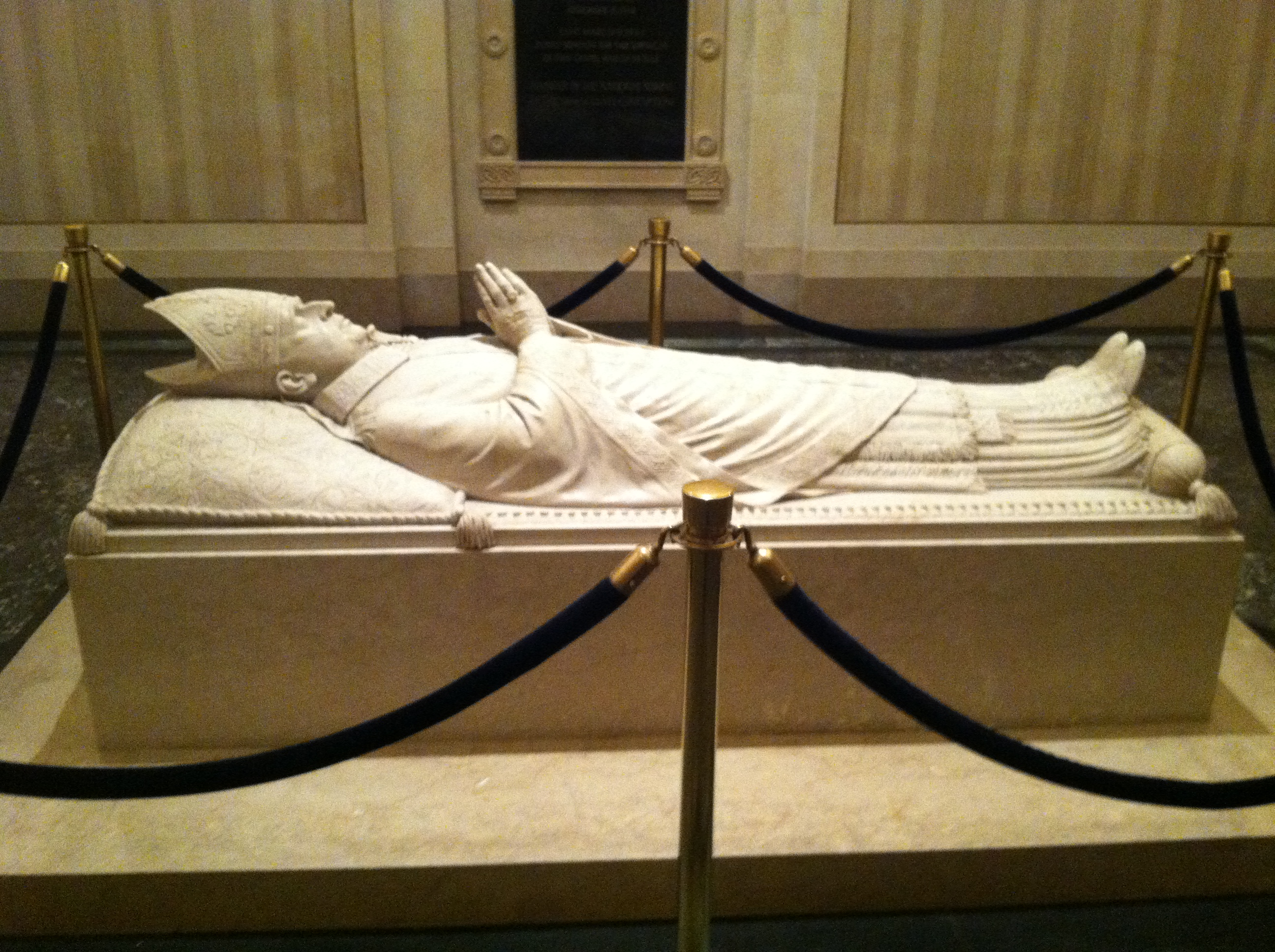 Founder's Chapel